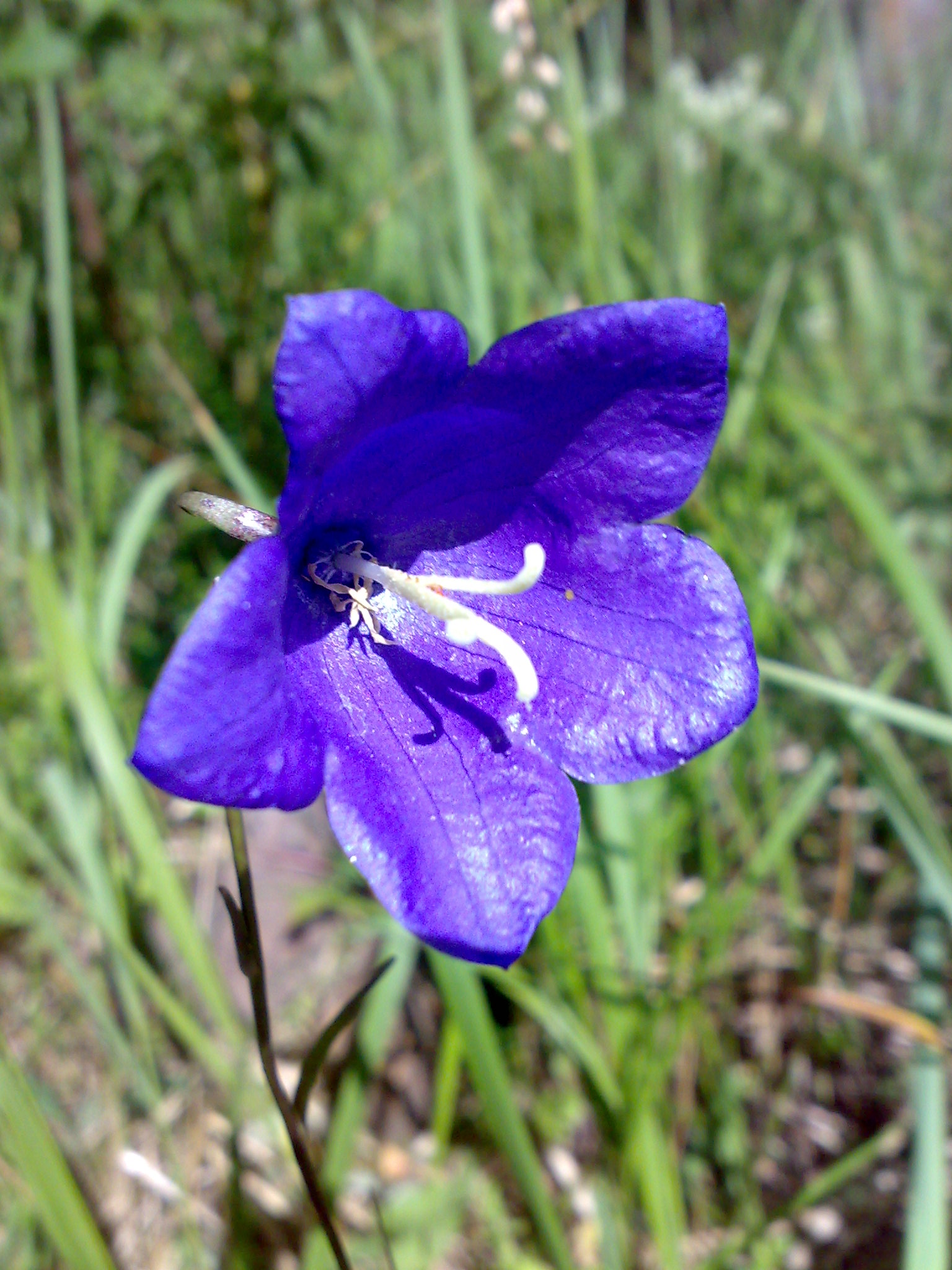 Campanula persicifolia